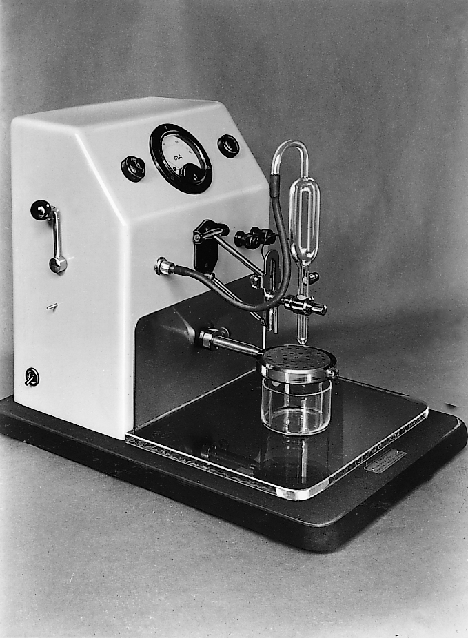 Micropol preparation machine for polishing of metal samples